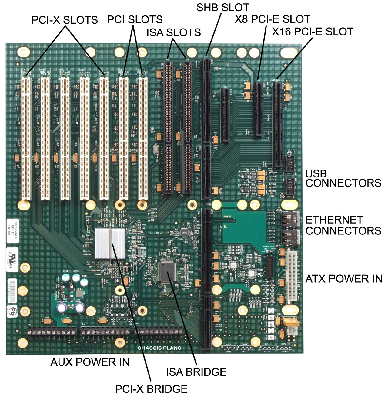 Chassis Plans S6544 PICMG 1.3 Backplane Author: David Lippincott for Chassis Plans URL: Product URL for additional information